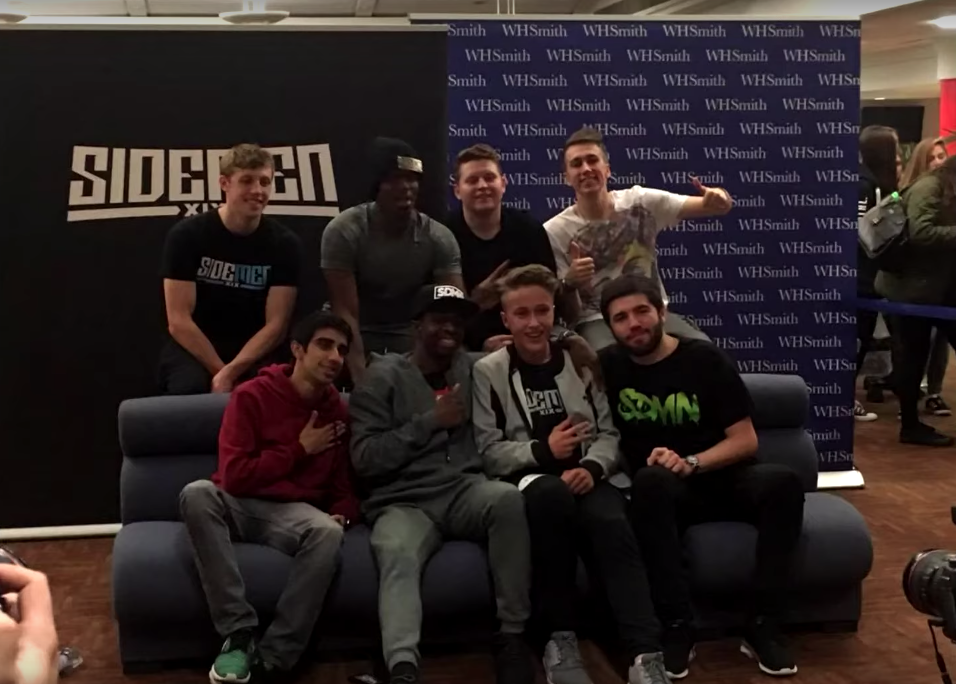 Sidemen taking a picture with a fan at Sidemen Book Tour